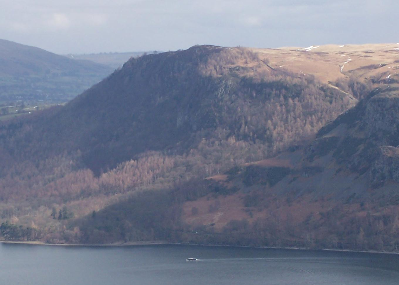 Personal picture taken on March 20th 2006 by Mick Knapton